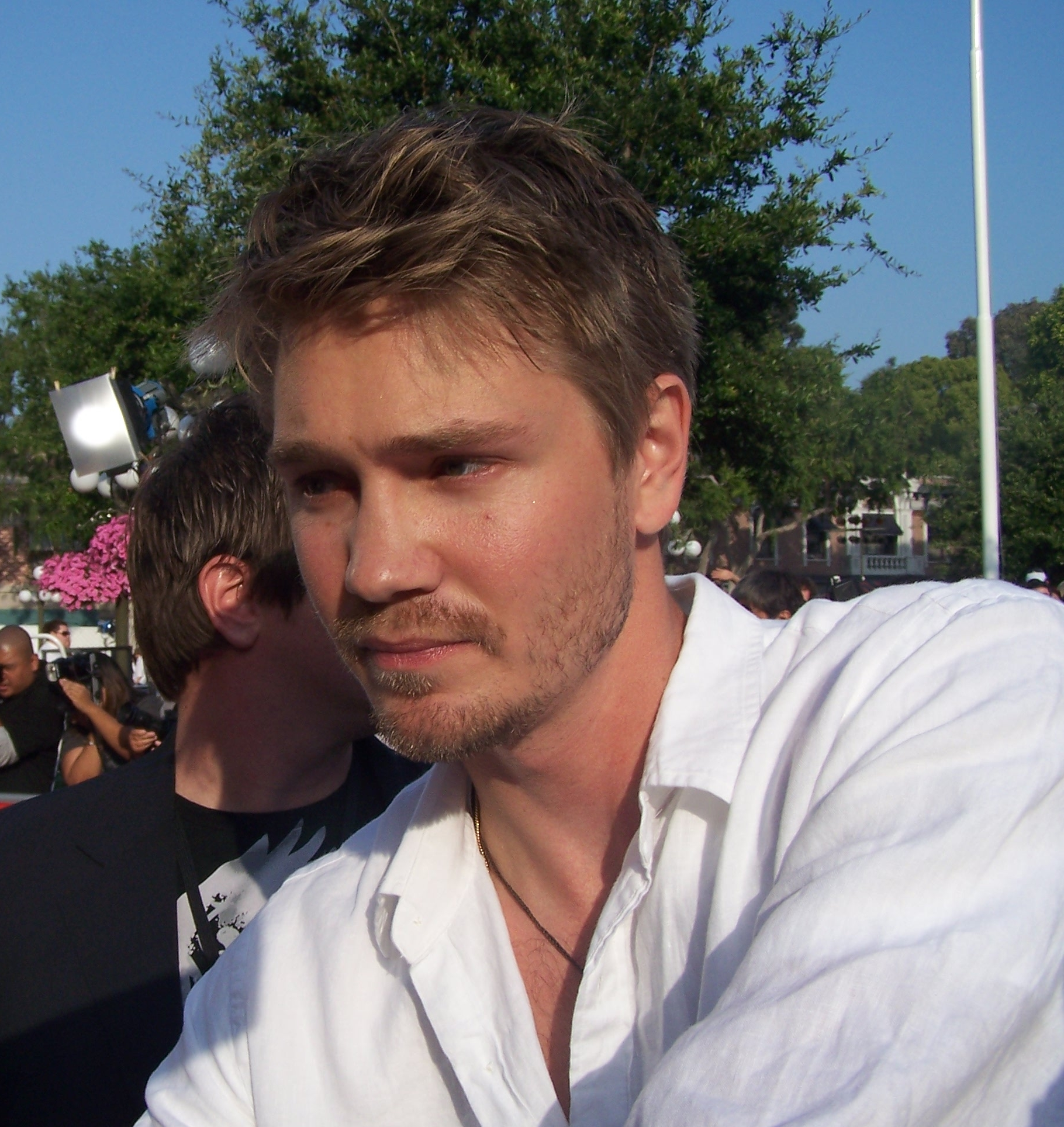 American actor Chad Michael Murray.